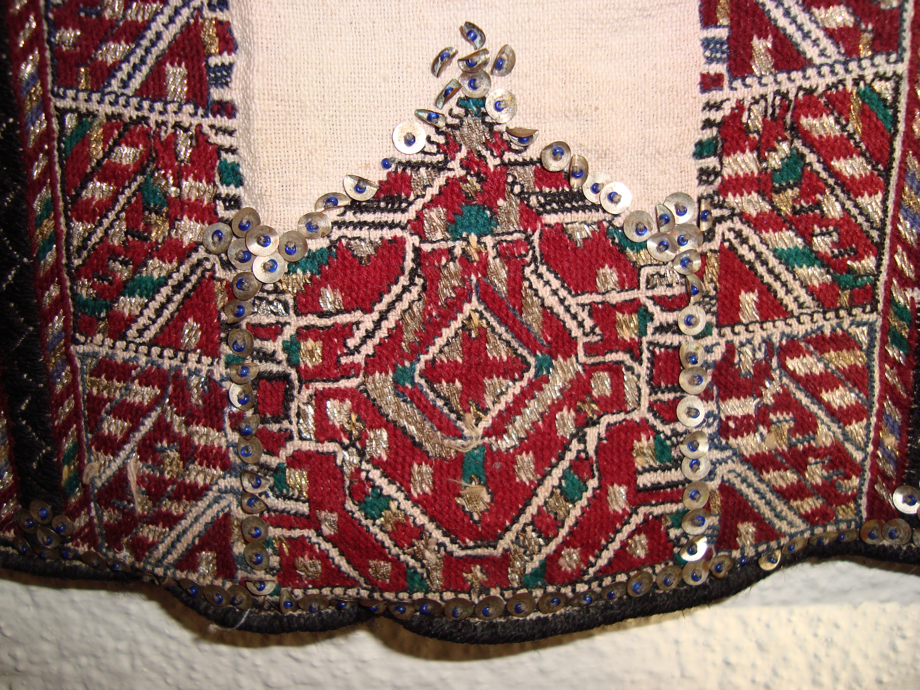 Details of traditional Macedonian clothing from the village Radiovce, Tetovo, Macedonia.